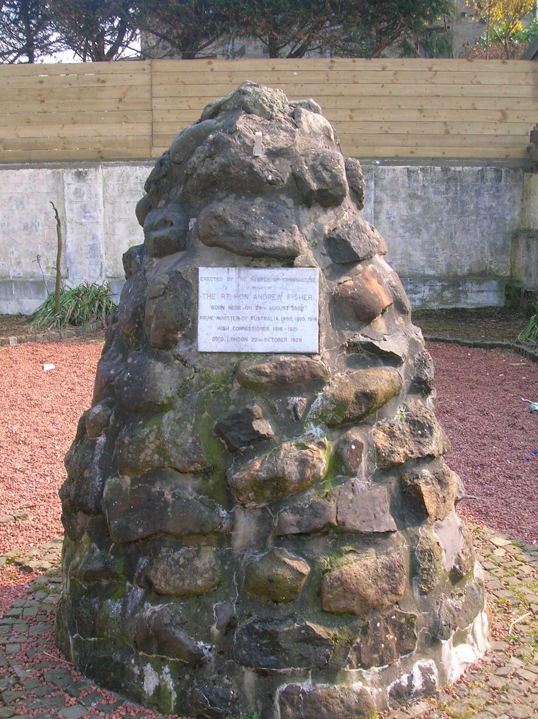 The Cairn and Plaque to former Australian Prime Minister Andrew Fisher in Crosshouse, East Ayrshire, Scotland